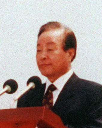 김영삼 (Kim, Young Sam). Cropped from a photo with the caption: ID: DA-SC-98-04088 Service Depicted: Other Service A1501-SCN-96-0013001 United States President William J. Clinton and South Korean President Kim Yong Sam at podium in Chejudo.(Exact date unknown)